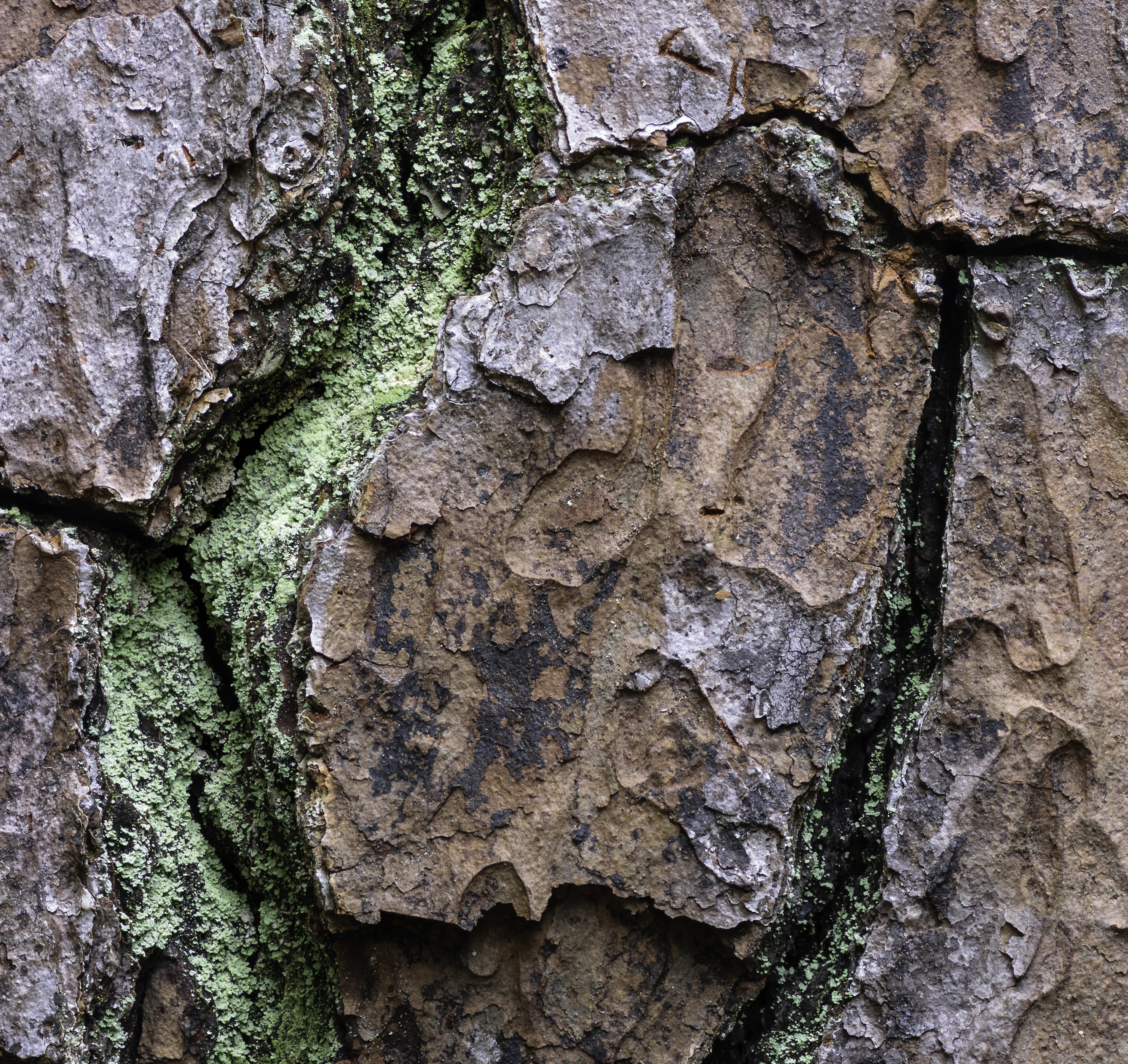 Pinus taeda (Loblolly Pine) bark at the Colonial Garden at Norfolk Botanical Garden, Norfolk, Virginia. Area shown is about 4-5" both directions. Focus stacked from 10 images.